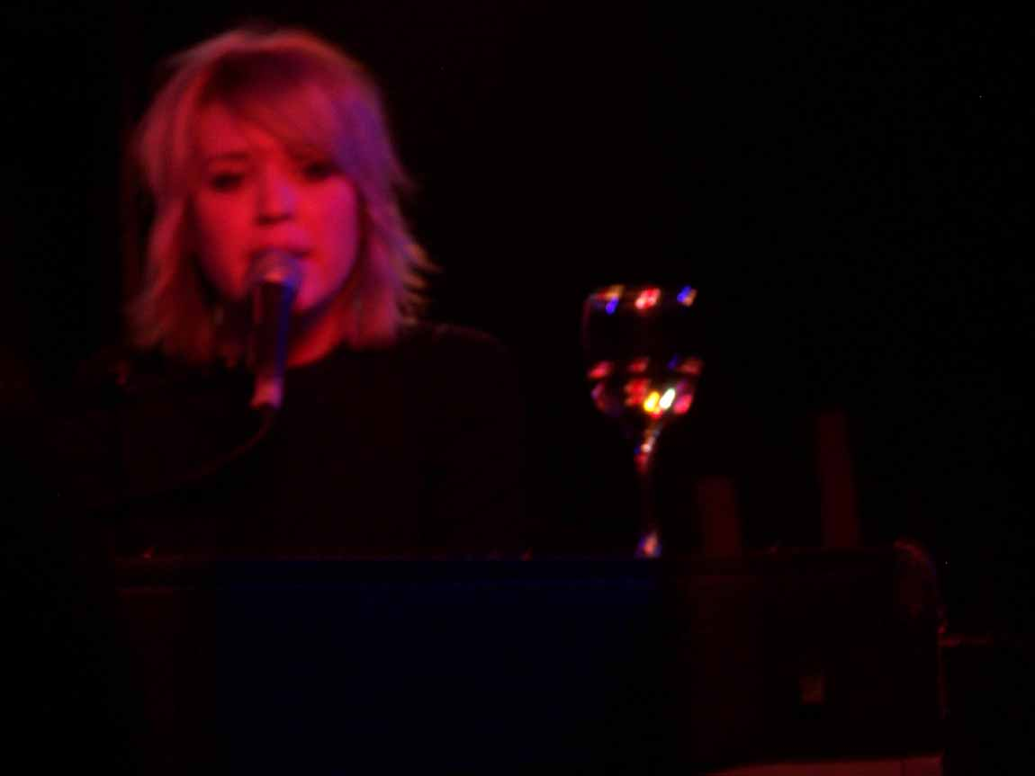 Frida Hyvönen @ Beat Kitchen with Bishop Allen on 11/19/06